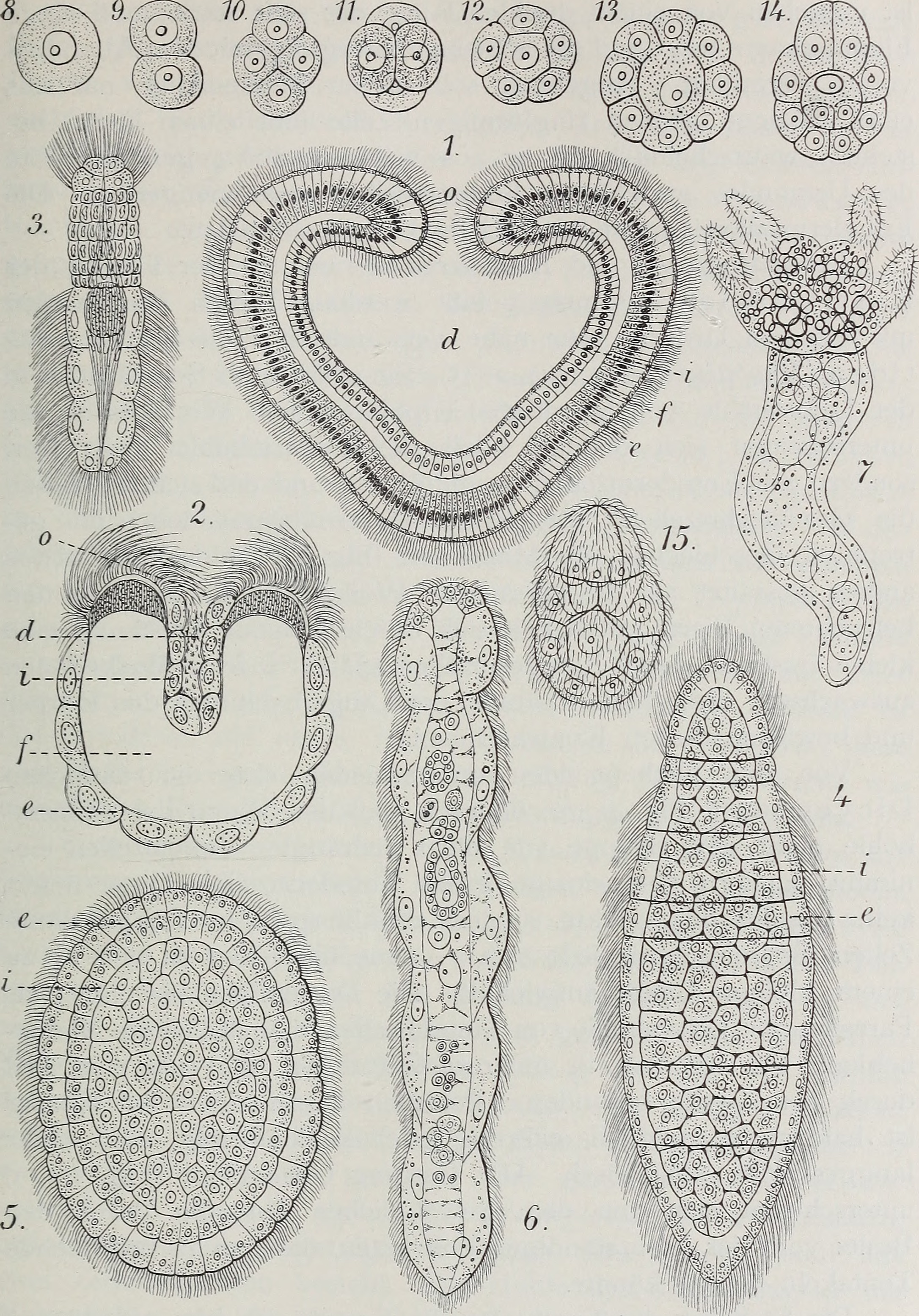 Title: Anthropogenie; oder, Entwickelungs-geschichte des Menschen Identifier: anthropogenieod02haec Year: 1910 (1910s) Authors: Haeckel, Ernst, 1834-1919 Subjects: Evolution; Embryology, Human; Anatomy, Comparative; Human beings Publisher: Leipzig, W. Engelmann Text Appearing Before Image: XIX. Gastraeaden der Gegenwart. 551 Text Appearing After Image: Fig. 287. Gastraeaden der Gegenwart. — Fig. 7. Pemmatodiscus gastrulaceus {MonticelU), im Längsschnitt. Fig. 2, Kunstleria Gruveli {Belage), im Längsschnitt. (Nach Ktmstler und Gritvel.) Fig. 3—5. Rhopaltira Giardi {Jiilin). Fig. j Männchen, Fig. 4 Weibchen, Fig. 5 Planula. Fig. 6. Dicyema macro- cephala {Van Beneden). Fig. 7—75. Conocyema polymorpha (Van Beneden). Fig. 7 die reife Gastraeade, Fig. 8—75 Gastrulation derselben, d Urdami, o Umiund, e Ektoderm, i Entoderm, f Gallerte zwischen e und i (Stützplatte, Blastocoel).